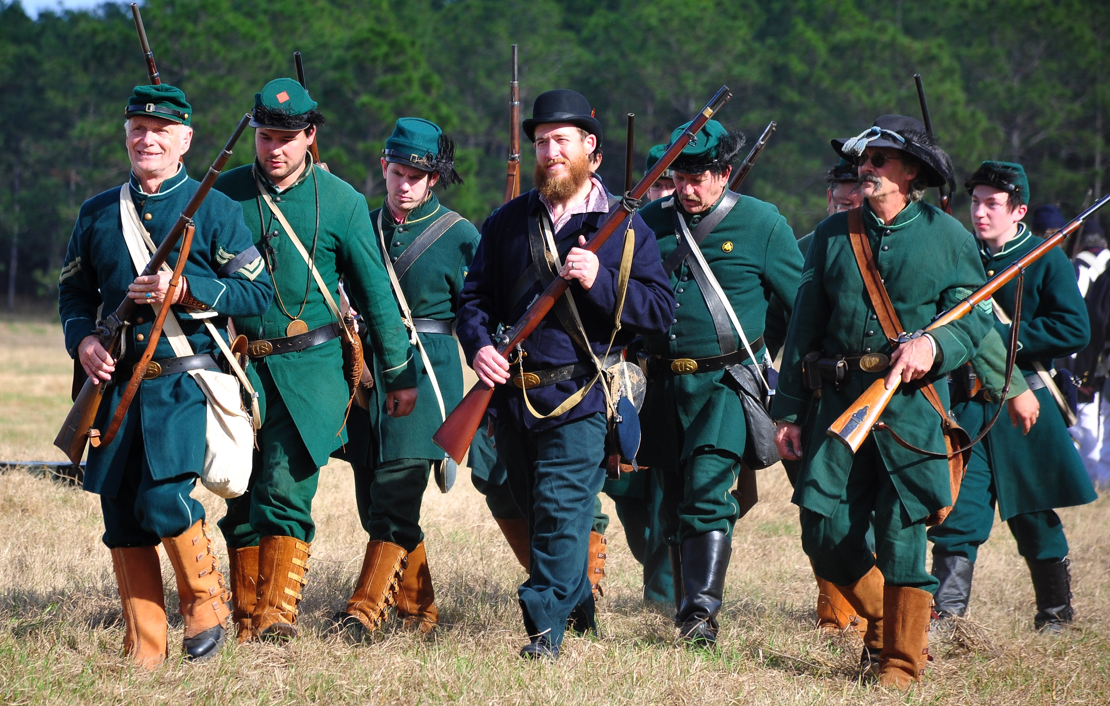 1st United States Sharpshooters. The Brooksville Raid was an incursion that Union troops launched into Hernando County, Florida, during the Civil War. It is commemorated annually by what is called the largest Civil War reenactment in Florida.